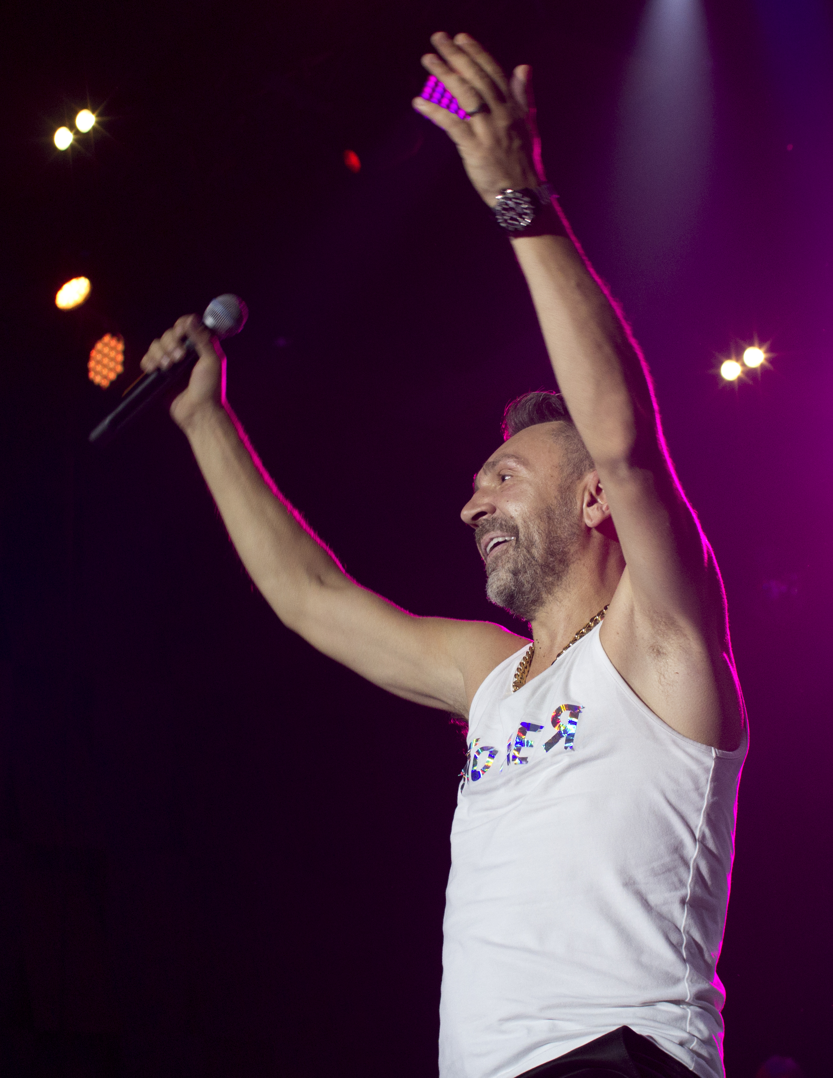 Sergey Shnurov, concert of band Leningrad in Prague, Forum Karlín 2017 This serie was captured thanks to Berin Art